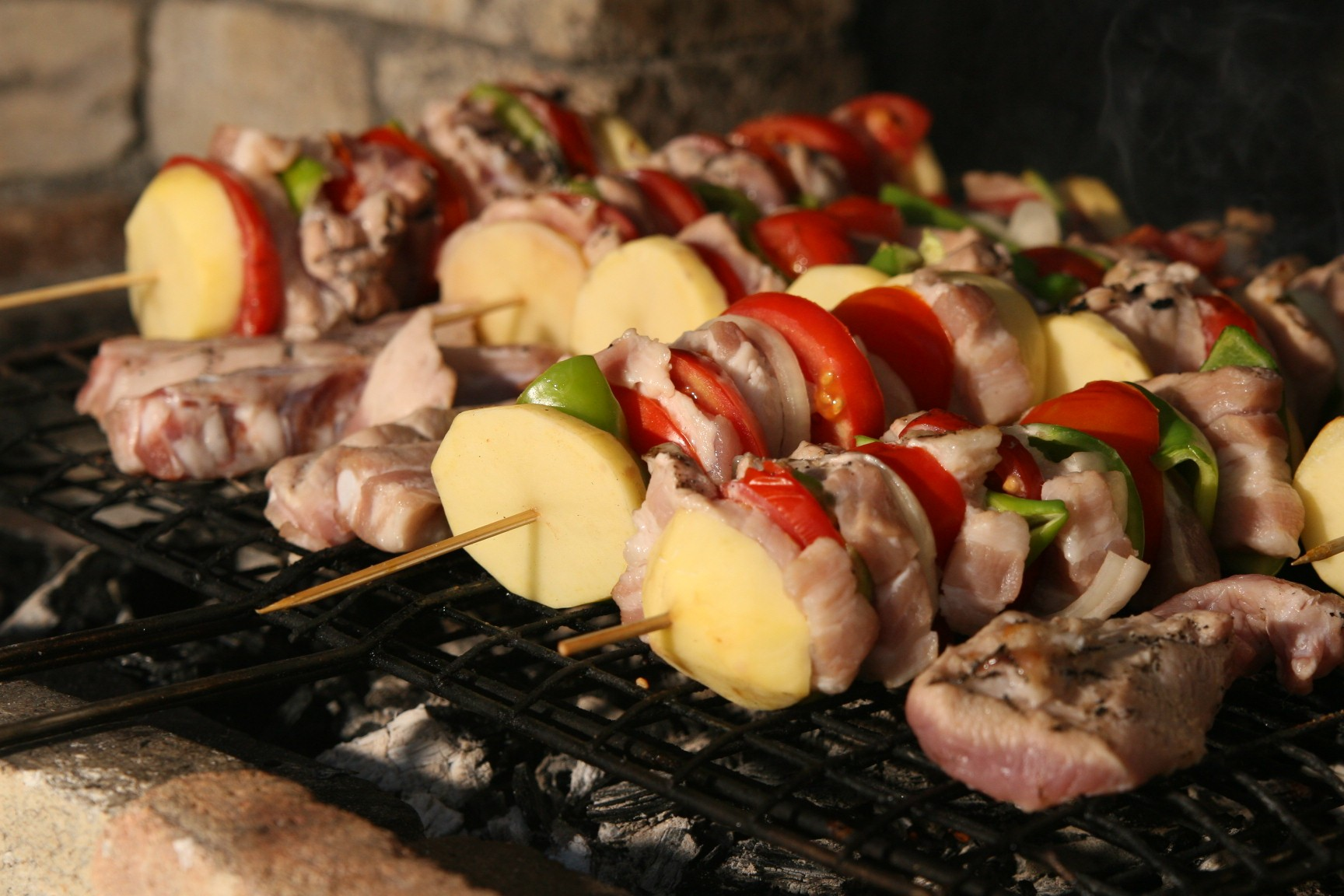 Bulgarian barbecue from the Rhodope Mountains